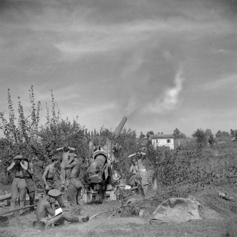 The British Army in Italy 1944 155mm gun of 75th Heavy Regiment, Royal Artillery, in action against German positions on the Gothic Line, 13 September 1944.